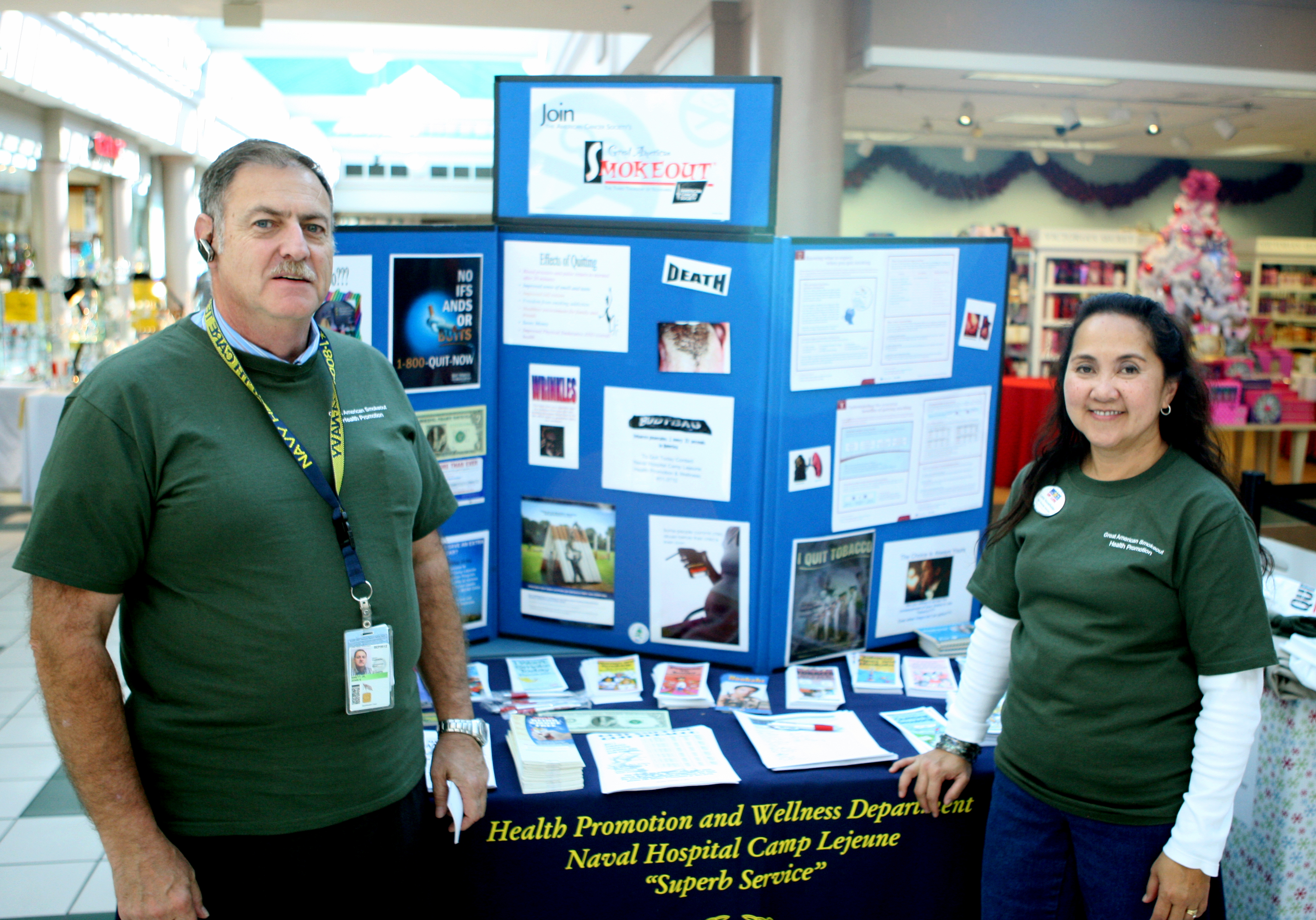 John Swett Jr., a health educator and Tobacco Cessation Program coordinator with the Health Promotion & Wellness, Naval Hospital Camp Lejeune, and Loida Householder, a promotion specialist with Health Promotion, take a moment to pose in front of their informational booth on tobacco and nicotine during the Great American Smokeout at the Marine Corps Exchange aboard Marine Corps Base Camp Lejeune, Nov. 18. The Smokeout is an annual event held on the third Thursday of November in locations across the nation, raising nicotine awareness and encouraging millions of Americans to stop smoking.